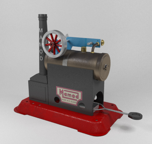 A computer generated image of a Mamod SP1 stationary engine from the mid 1970s. This model was one of the smallest engines Mamod made, and burns Hexamine tablets. This image was created using 3DS max and rendered using Mental Ray